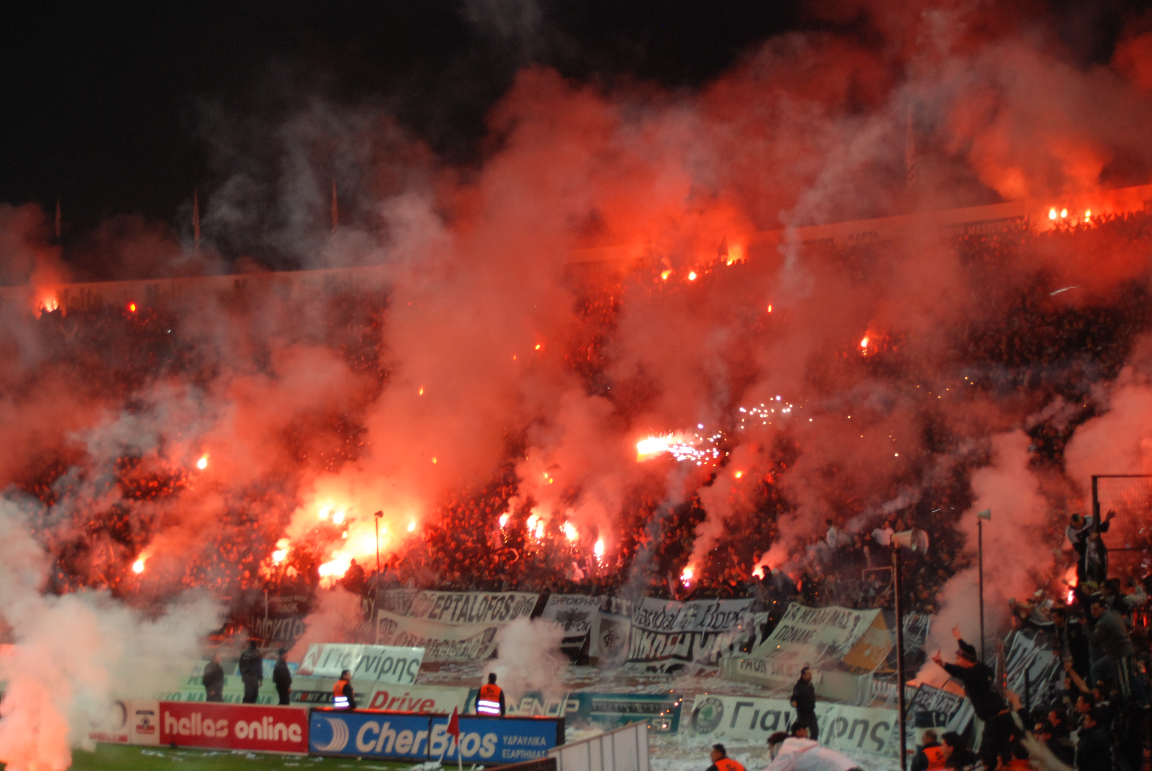 Fans of PAOK during the Olympiacos and PAOK football rivalry game played on 4/2/2009 for the Greek Cup at the Toumba Stadium, Thessaloniki.